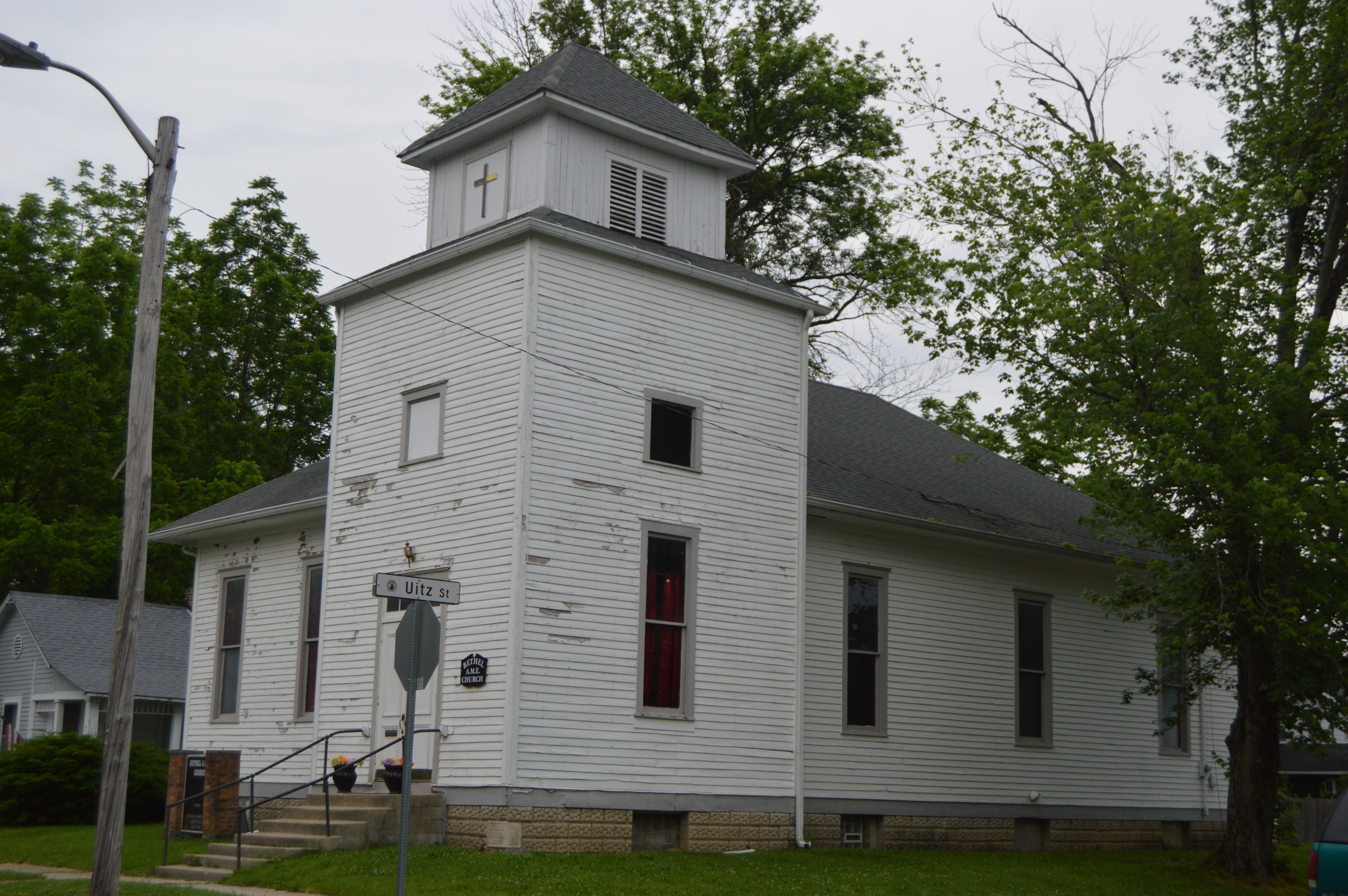 Front and western side of Bethel African Methodist Episcopal Church, located at 499 W. Madison Street in Franklin, Indiana, United States. Built in 1911, it is listed on the National Register of Historic Places.